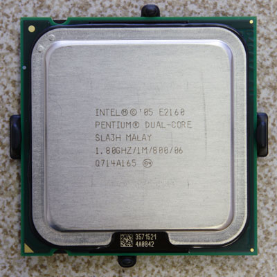 Intel Pentium Dual-Core E2160, CPU Socket 775